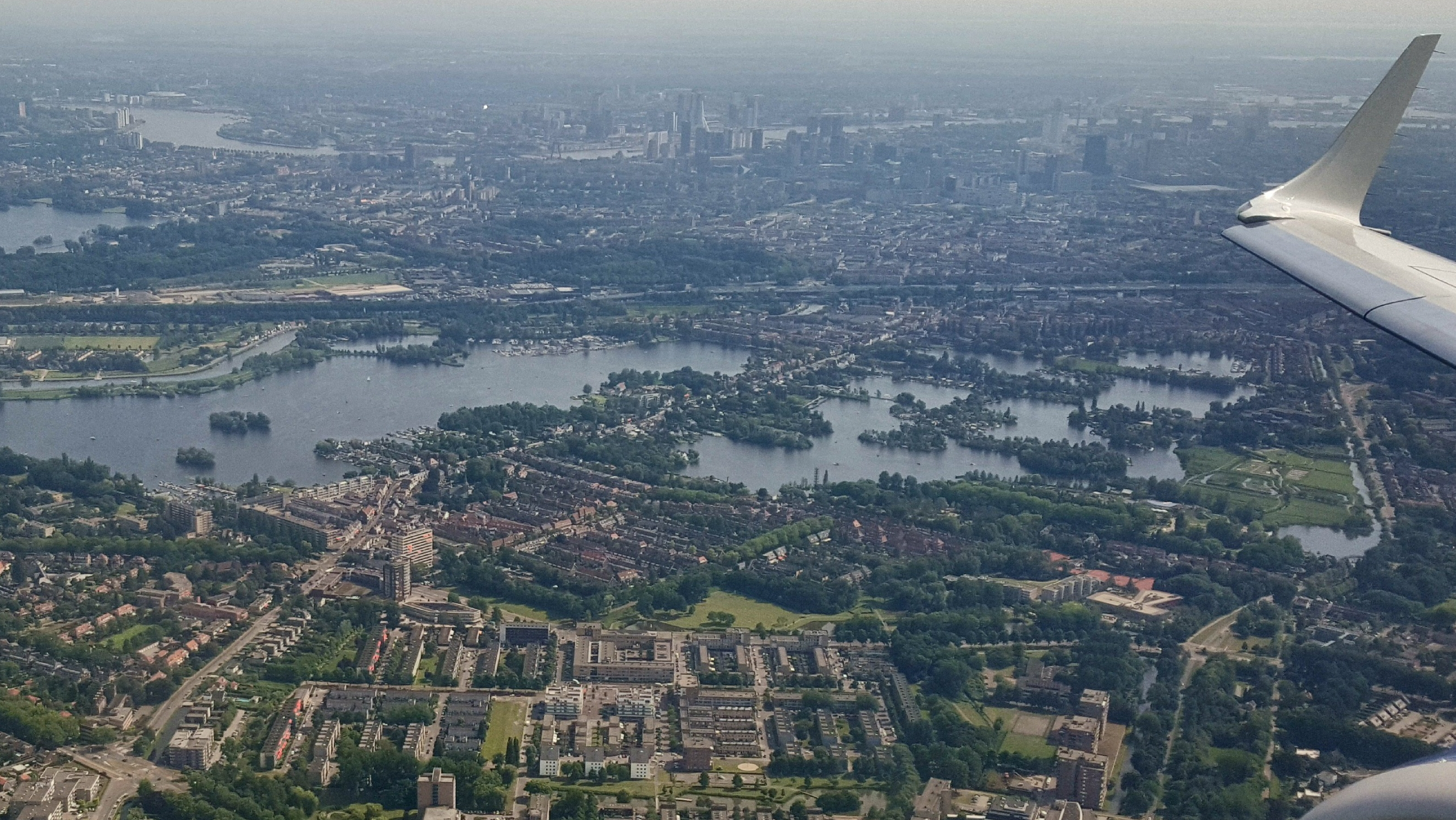 Aerial view of the Hillergersberg Neighbourhood and its lakes. Rotterdam's city centre and New Meuse (Nieuwe Maas) River lies in the distance.